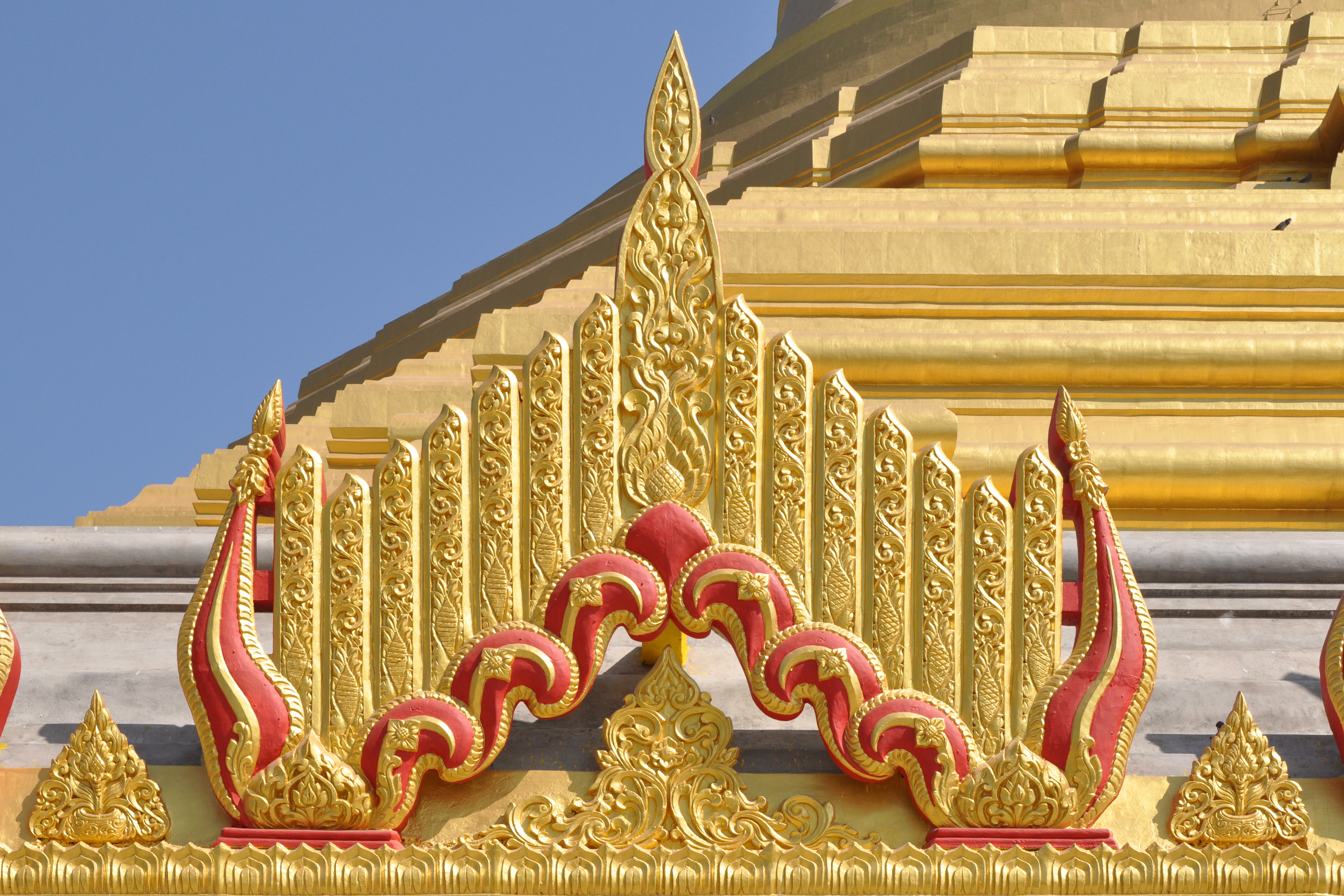 Motif on Global Vipassana Pagoda in Mumbai, India.